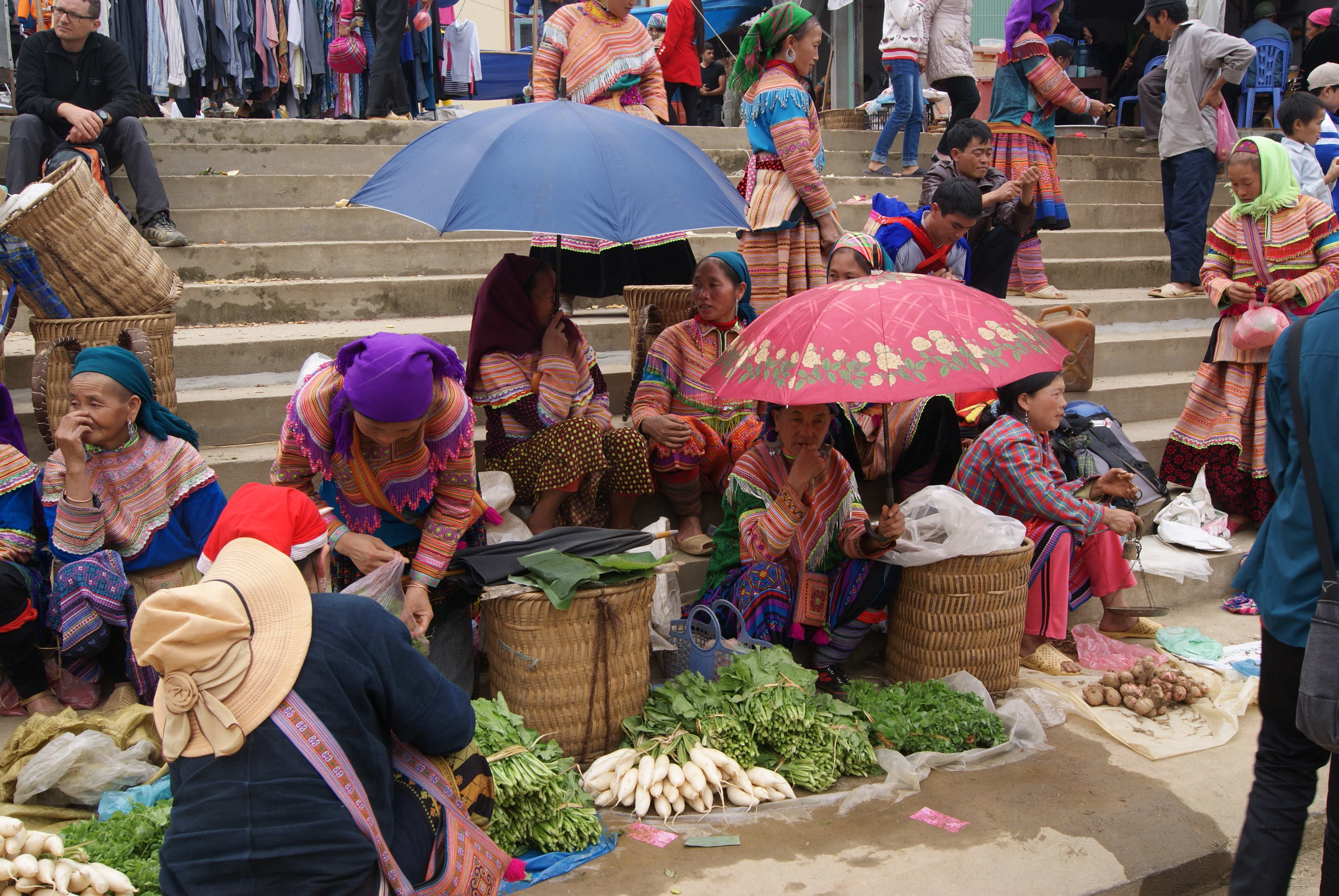 Bắc Hà Sunday market, Vietnam.